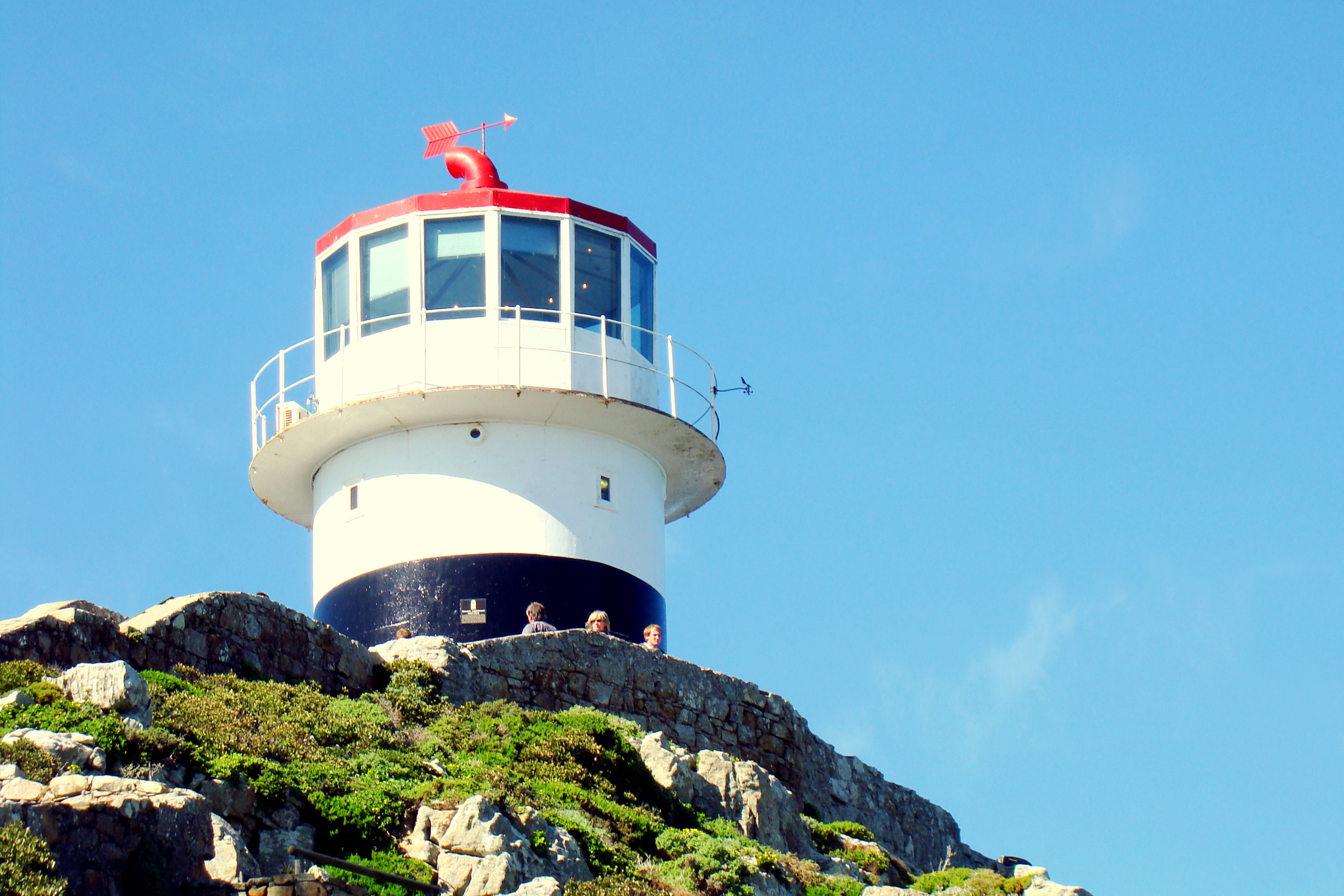 Lighthouse Cape Point, South Africa